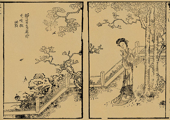 Li Cho-wu Hsien-sheng P'i-tien Hsi-hsiang Chi Chen-pen "Genuine Version of Master Li Tsuo-Wu's Annotations on Tale of the Western Wing" Written by Wang Shih-fu, Yüan Dynasty Commentated by Li Cho-wu Annotated by Li Chih, Ming Dynasty Ming imprint 1368-1644